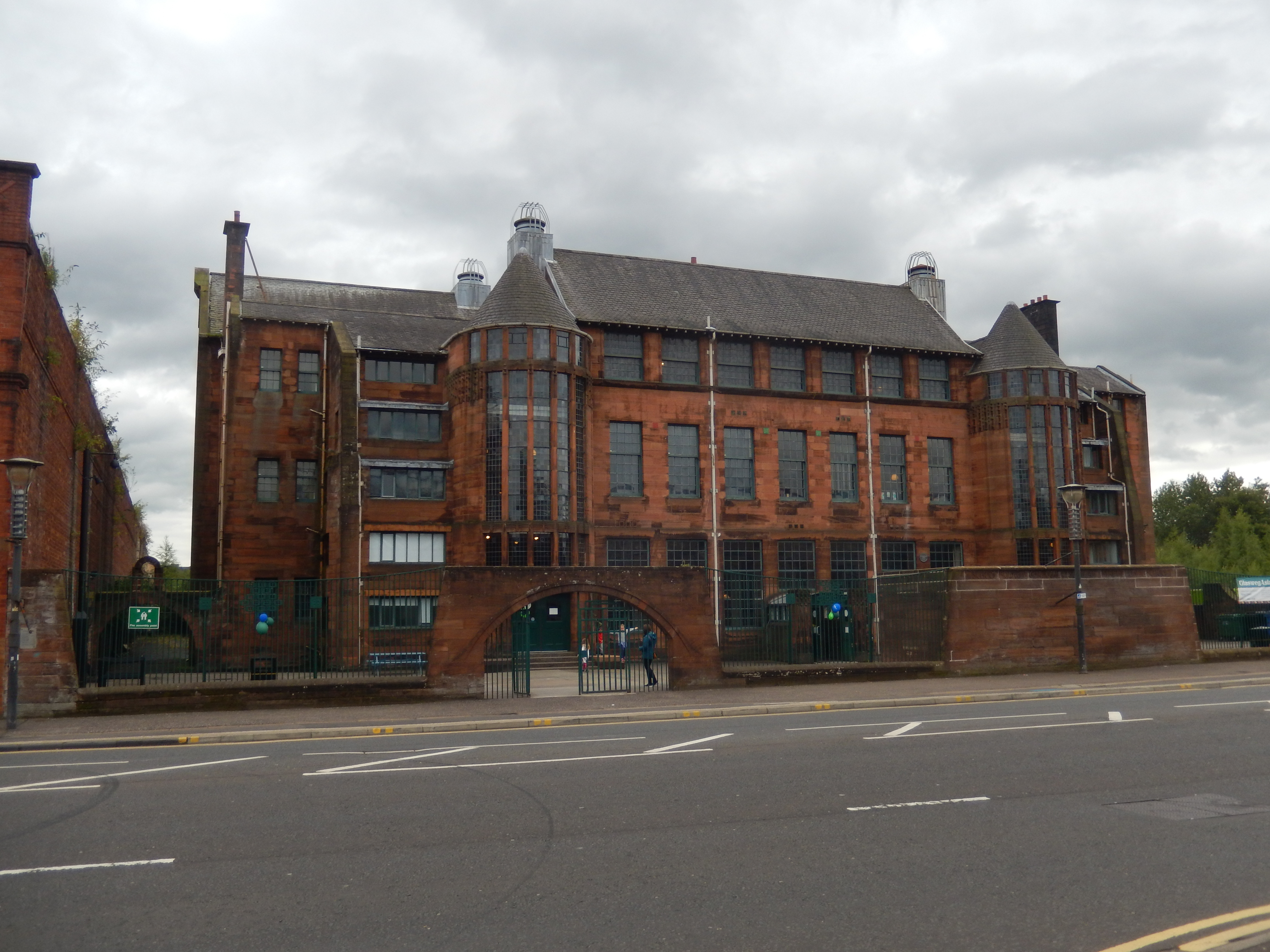 225 Scotland Street, Scotland Street School Wikidata has entry Q17568888 with data related to this item.